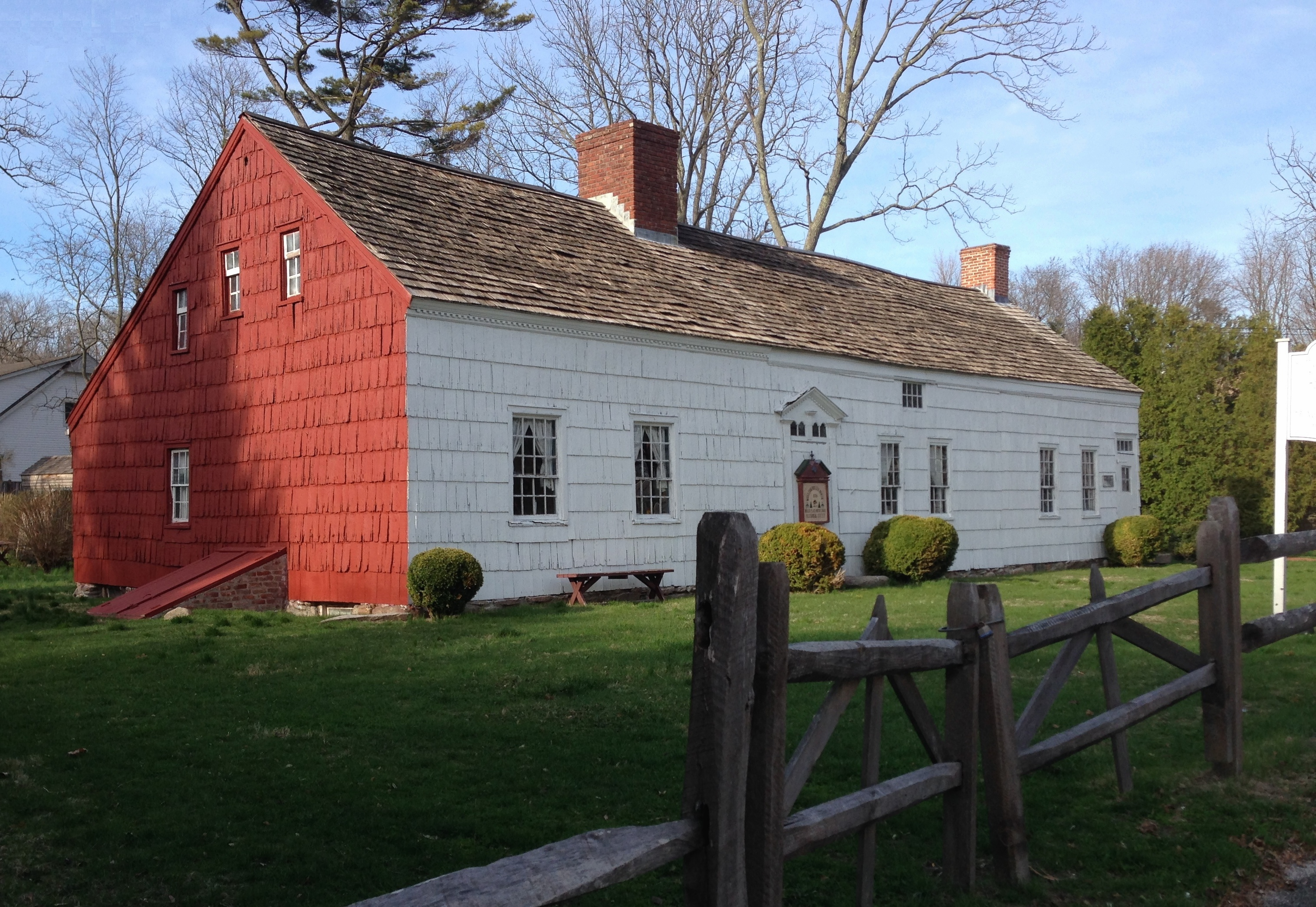 The William Miller homestead in Miller Place, New York